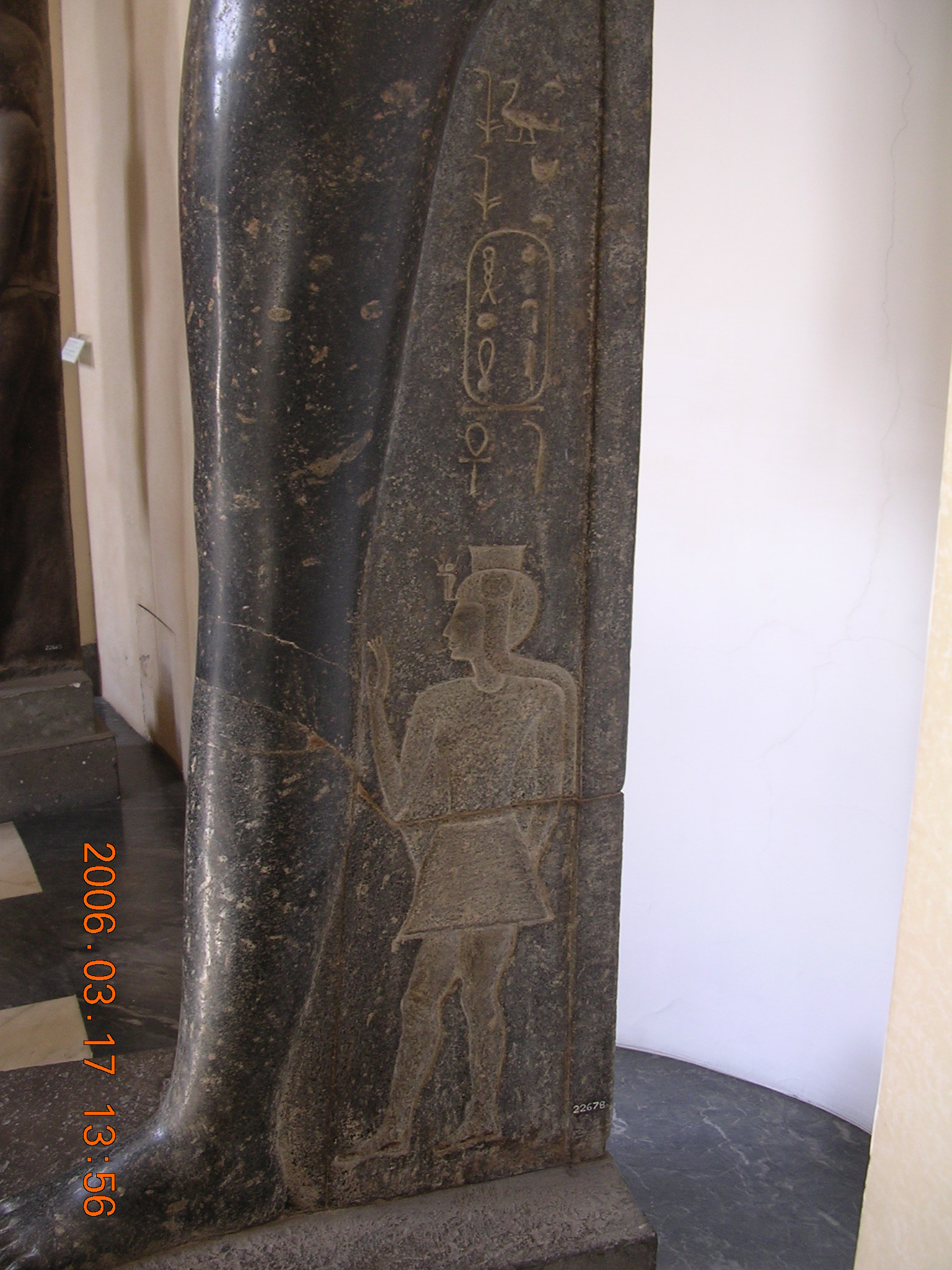 Princess-Queen Henutmire on the statue of her mother or grandmother Queen Tuya. 19th dynasty of ancient Egypt. Statue is in Vatican City.